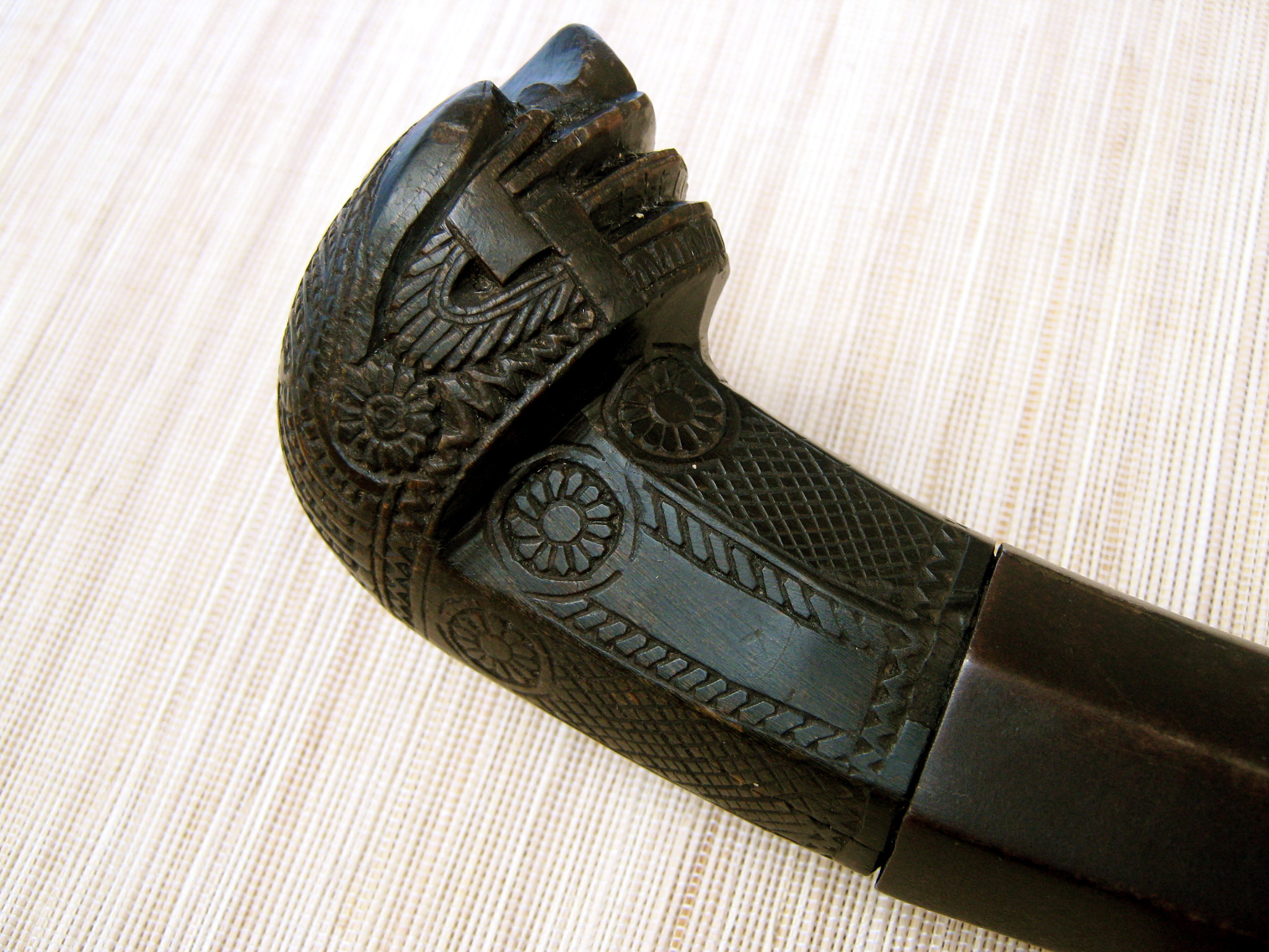 This antique Philippine sword is from Panay-Negros area in the Visayas in central Philippines. The sword is called "tenegre" (roughly, in the likeness of a tiger, that is its tooth versus the blade shape). The photo of the entire sword is here. The blade is made of laminated steel and is chisel-ground (flat on one side and beveled on the other), as is typical of Visayan swords. Carved carabao horn handle has the traditional grinning figural monster for pommel. The circular hand guard is also made of horn, and the ferrule ("collar") is made of iron. Overall length: 567 mm (23.3 inches); Blade length: 435 mm (17.1 inches); Maximum blade thickness: 7.5 mm (1/4 inch) Other uploaded materials by the same author are here: (a) Luzon weapons; (b) Visayan weapons; (c) Moro weapons; and (d) Lumad (non-Moro Mindanao) weapons